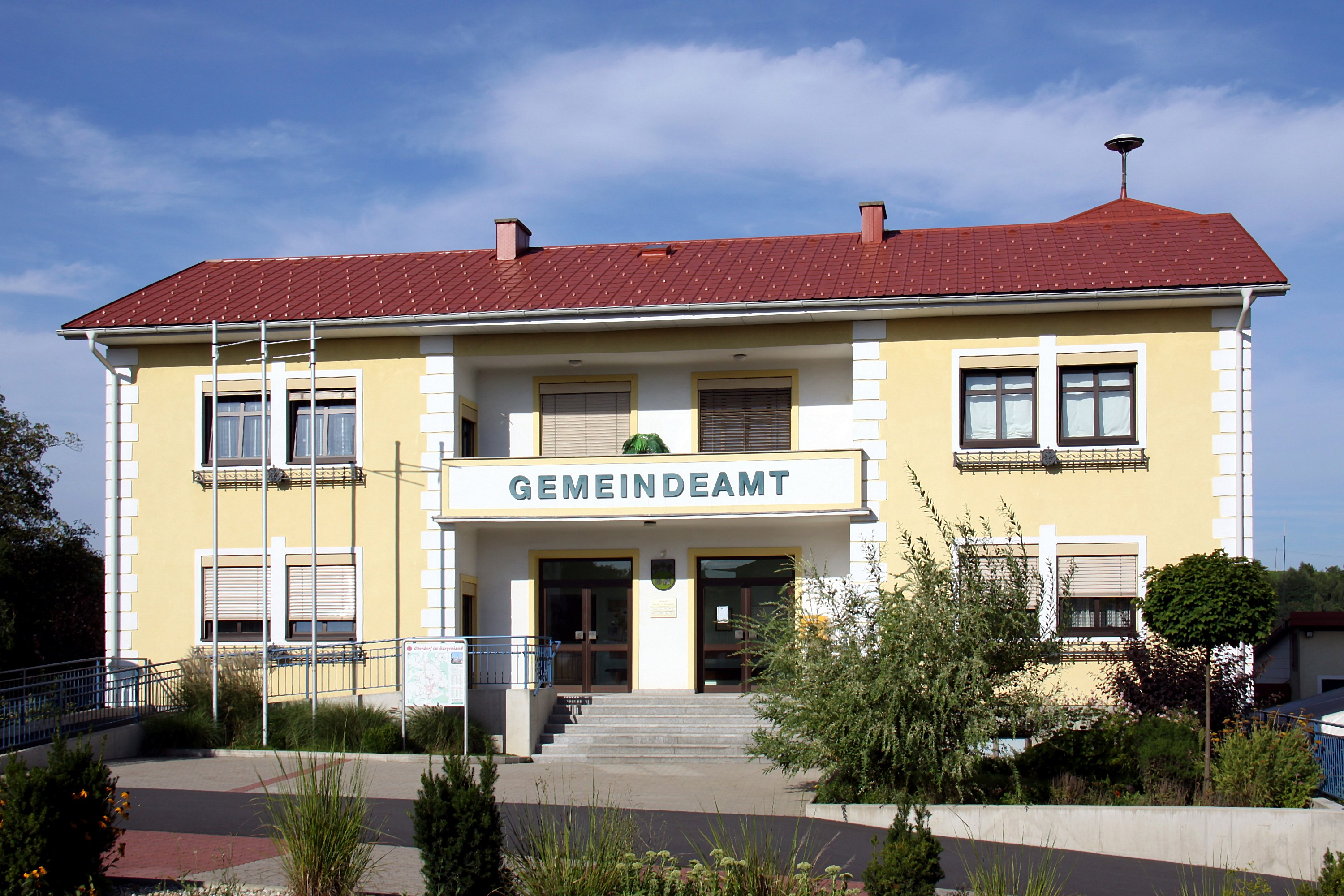 Oberdorf im Burgenland - municipal office